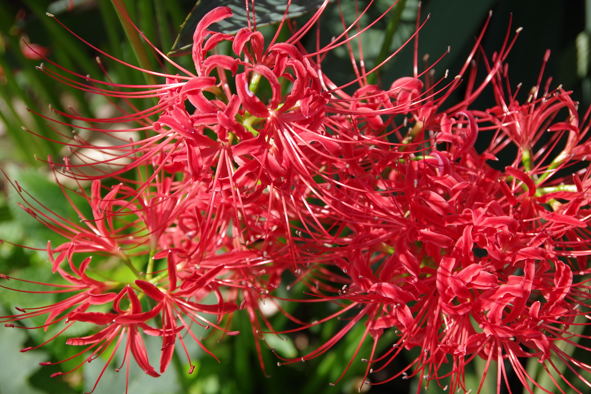 500px provided description: ????/??? [#autumn ,#red ,#flower ,#18-135mm ,#??? ,#???? ,#????? ,#APS-C ,#Lycoris radiata ,#PENTAX K-S2]